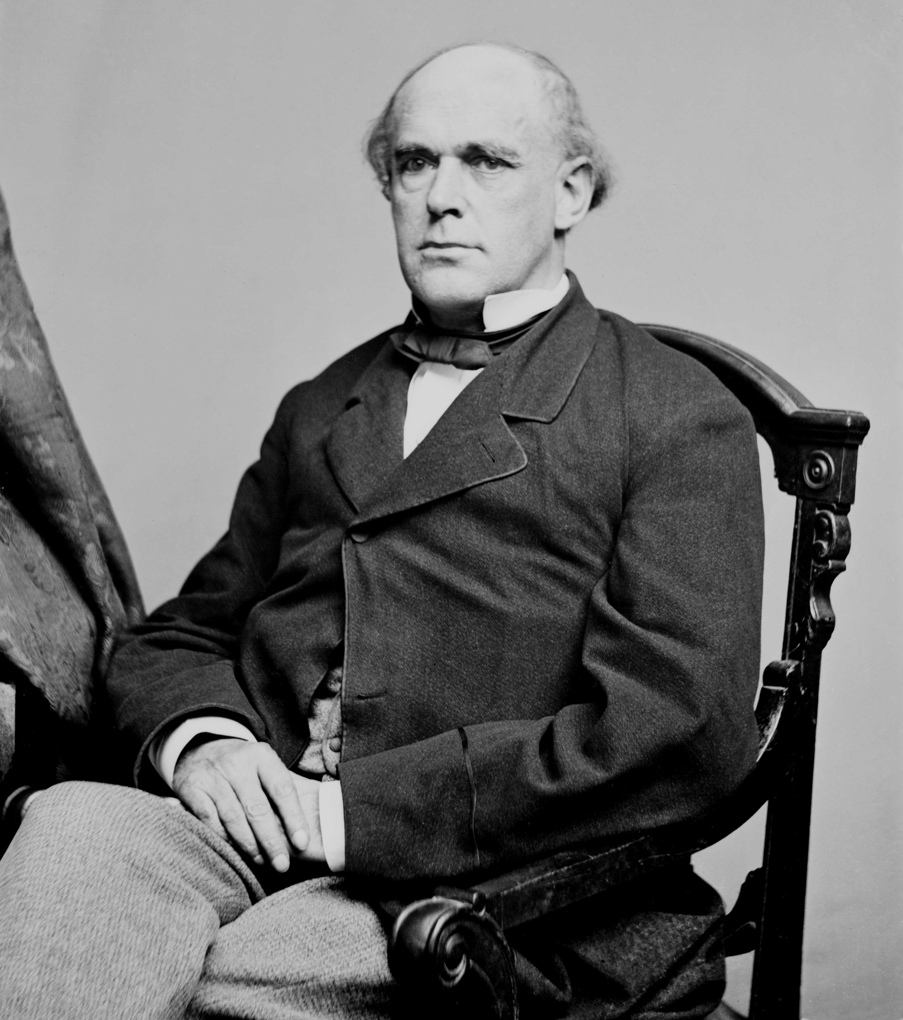 Salmon Portland Chase (13 January 1808 – 7 May 1873) was an American politician and jurist who served as United States Senator from Ohio and the 23rd Governor of Ohio; as U.S. Treasury Secretary under President Abraham Lincoln; and as the sixth Chief Justice of the United States Supreme Court.